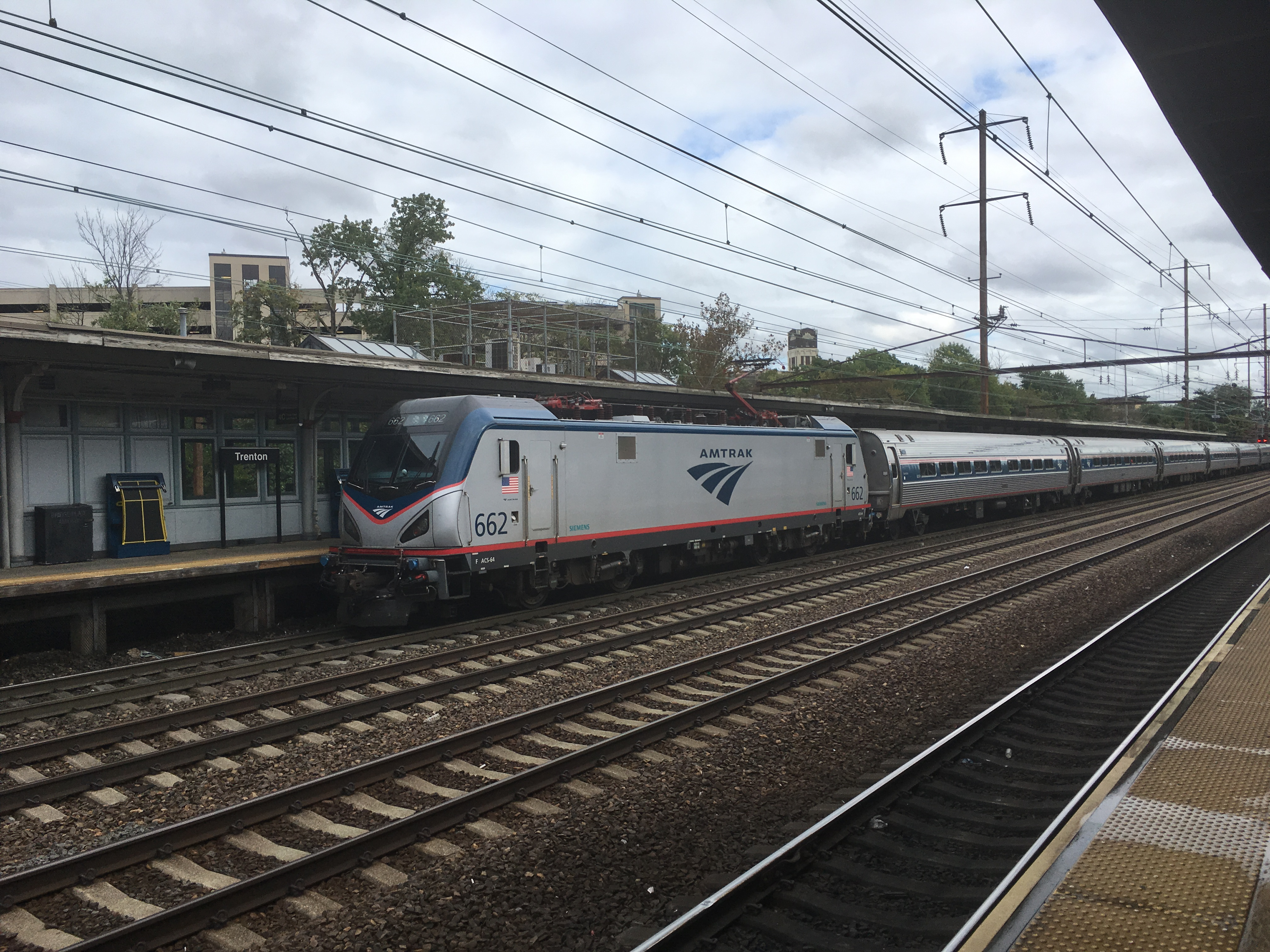 Amtrak Siemens ACS-64 662 leads a southbound Northeast Regional train bound for Washington, D.C. into Trenton Transit Center in Trenton, New Jersey